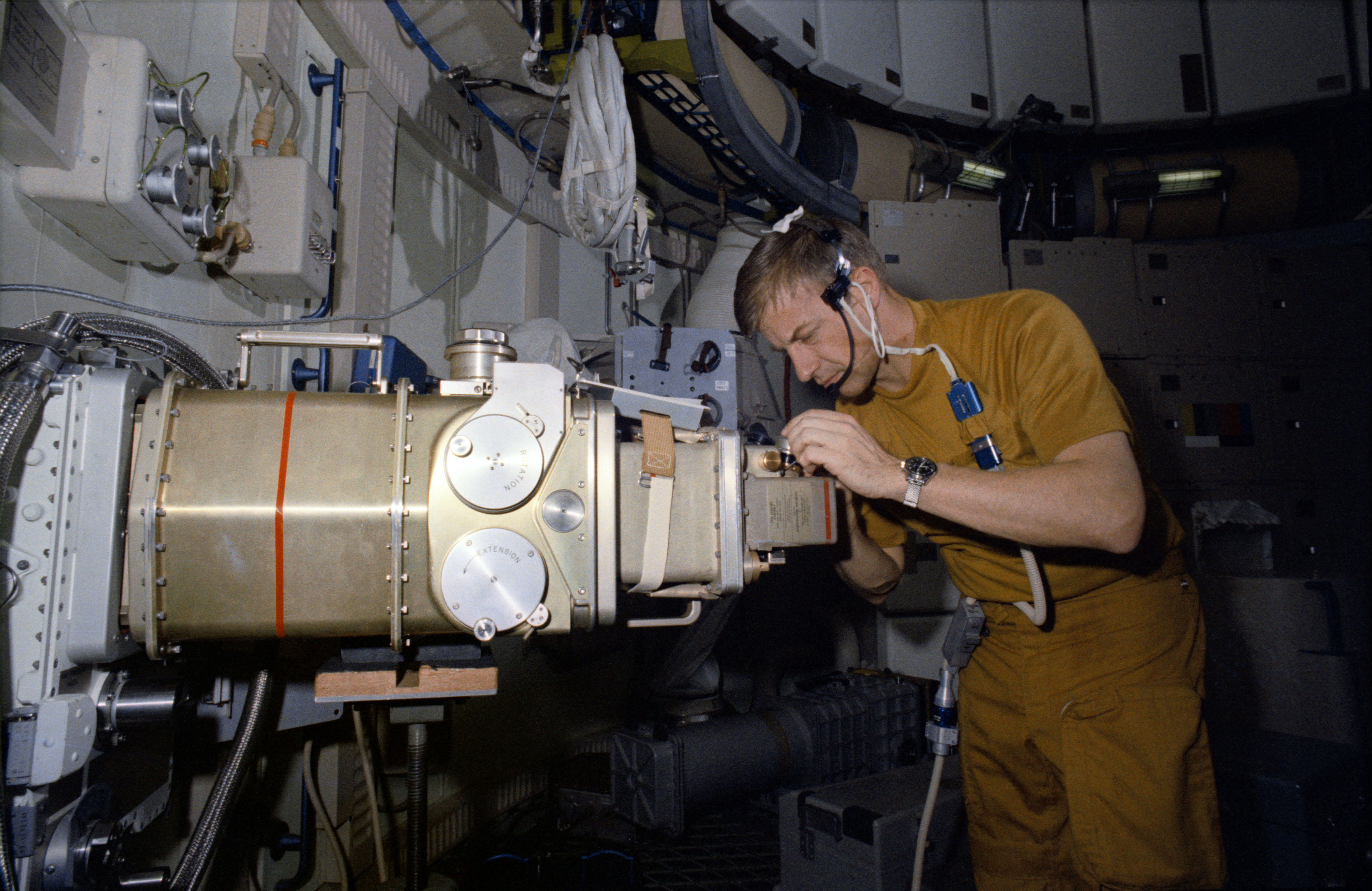 NASA Astronaut Paul J. Weitz, pilot of the Skylab 2 mission, works with the UV Stellar Astronomy Experiment S019 during Skylab training at the Johnson Space Center in Houston, Texas. The equipment consisted of a reflecting telescope, a 35mm camera and an additional mirror, and was mounted in an anti-solar scientific airlock on the side of the Skylab Orbital Workshop.